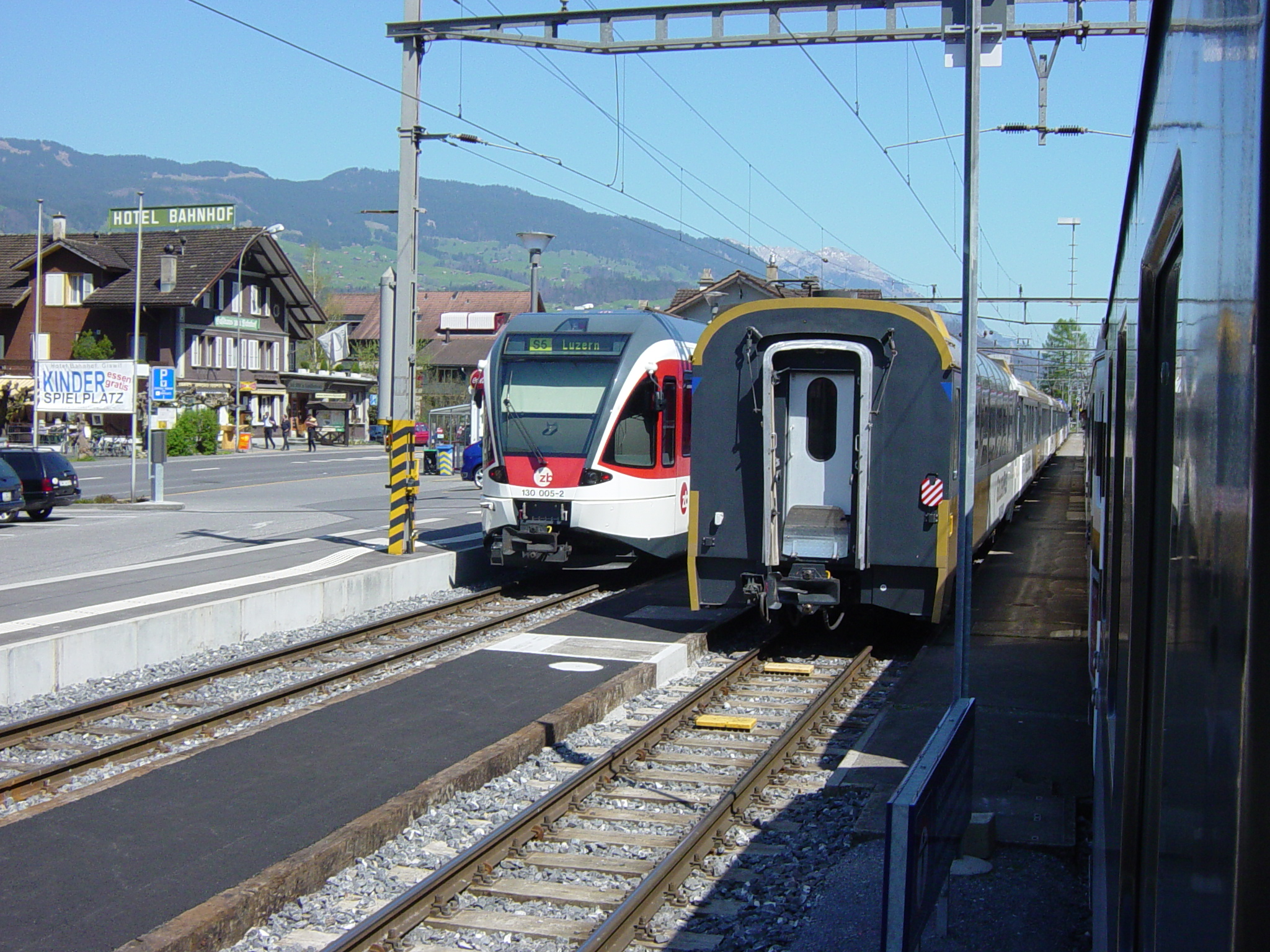 Station of Giswil with Lucerne S-Bahn train on line S5 (left) and GoldenPassLine train (right)